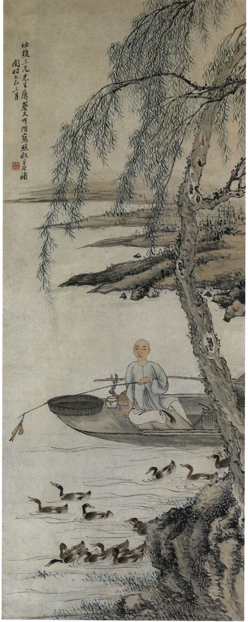 Liu Jiachen